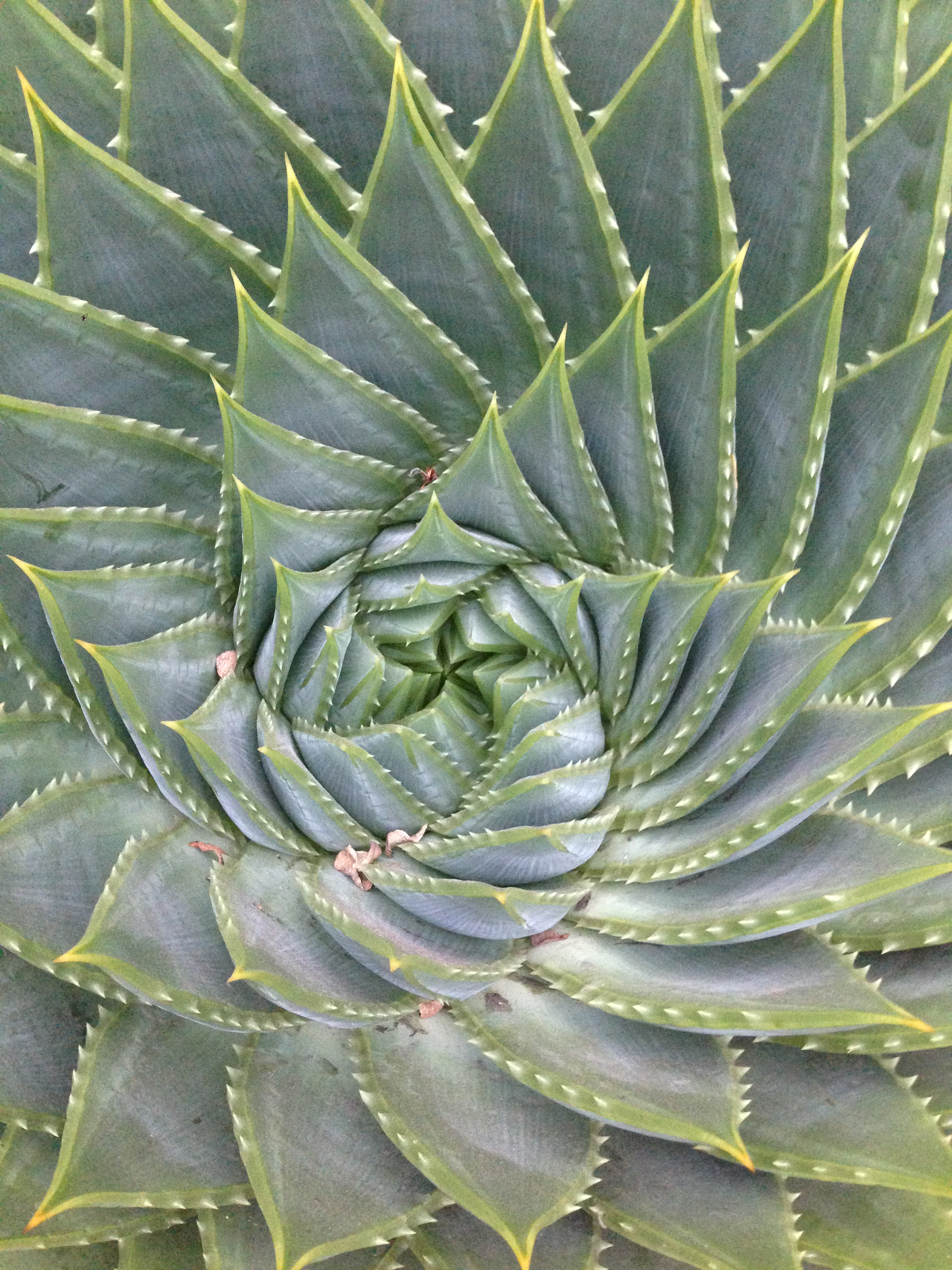 succulent seen on a walk in San Francisco